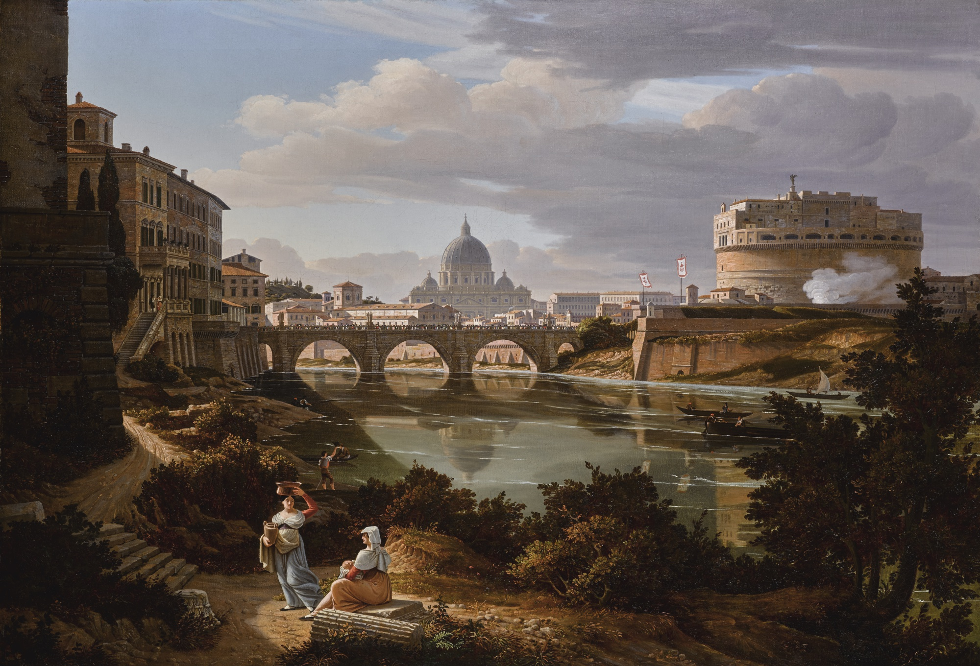 Rome, view of the river Tiber looking south with the Castel Sant'Angelo and Saint Peter's Basilica, beyond 1834.